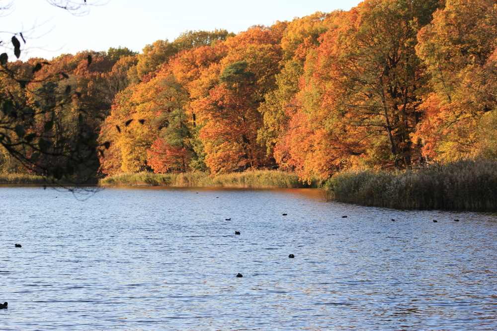 Schlachtensee im Herbst